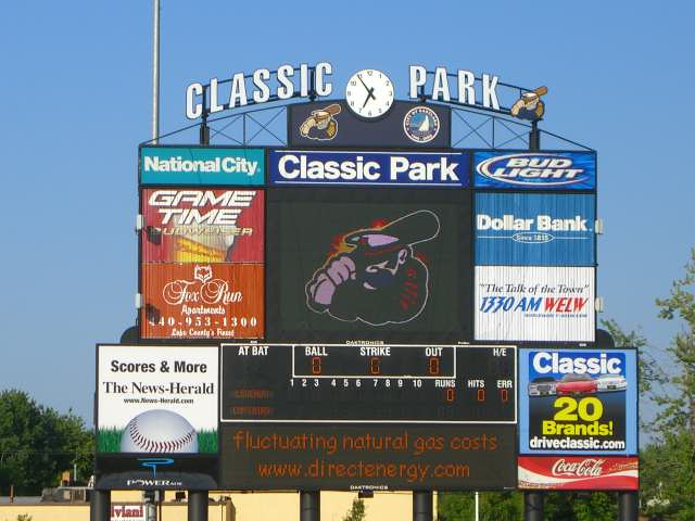 Classic Park 02:14, 27 July 2006 . . Nick81aku . . 640×480 (86 KB)